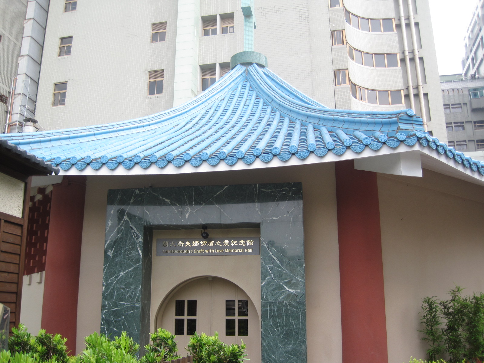 Landsborough's Graft with Love Memorial Hall